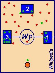 Diagram of What a Matball Court looks like. Green = Offense Red = Defense